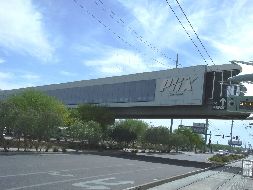 Outside view of the main terminal of the Phoenix Sky Train at Sky Harbor International Airport in Phoenix, Arizona.